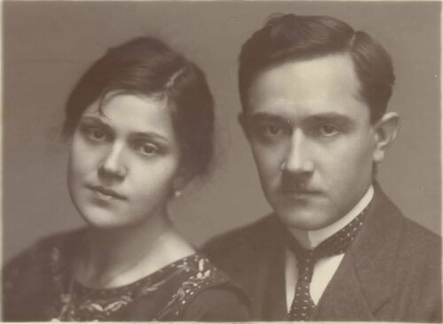 France and Melita Stele